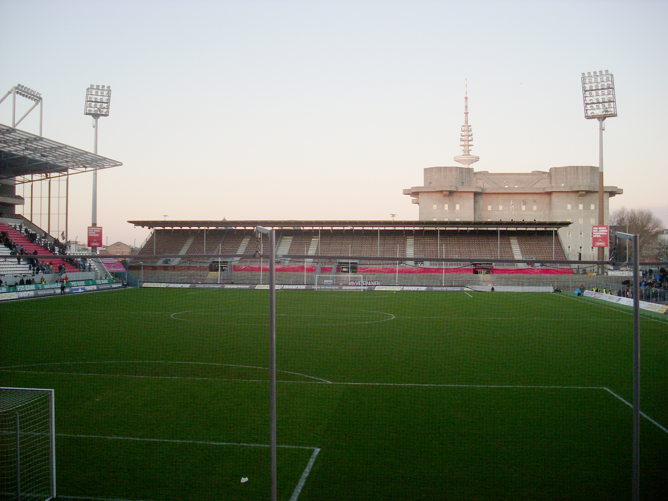 Hamburg Millerntor-Stadium of FC St. Pauli